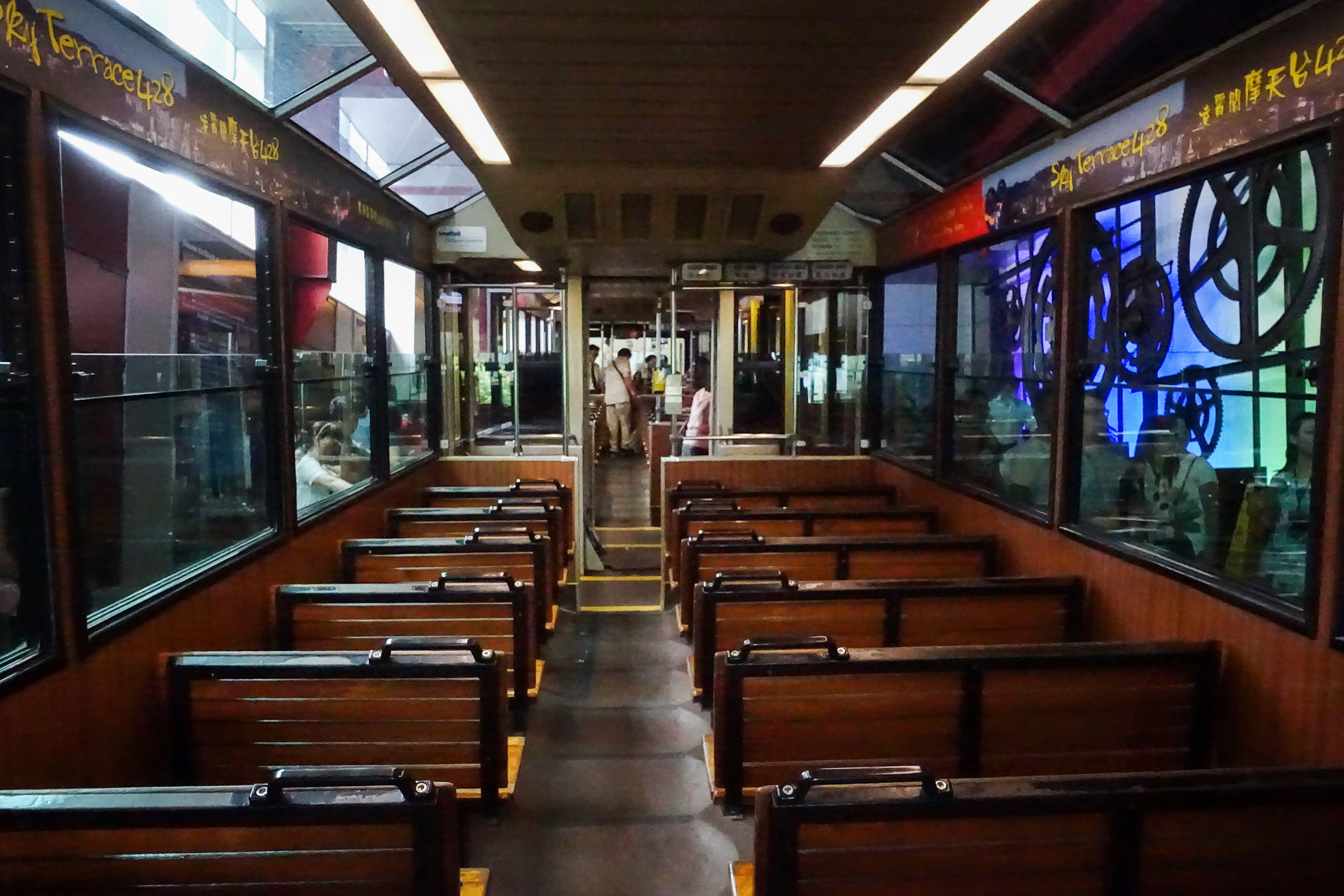 Inside the carriage of a Peak Tram, Hong Kong.